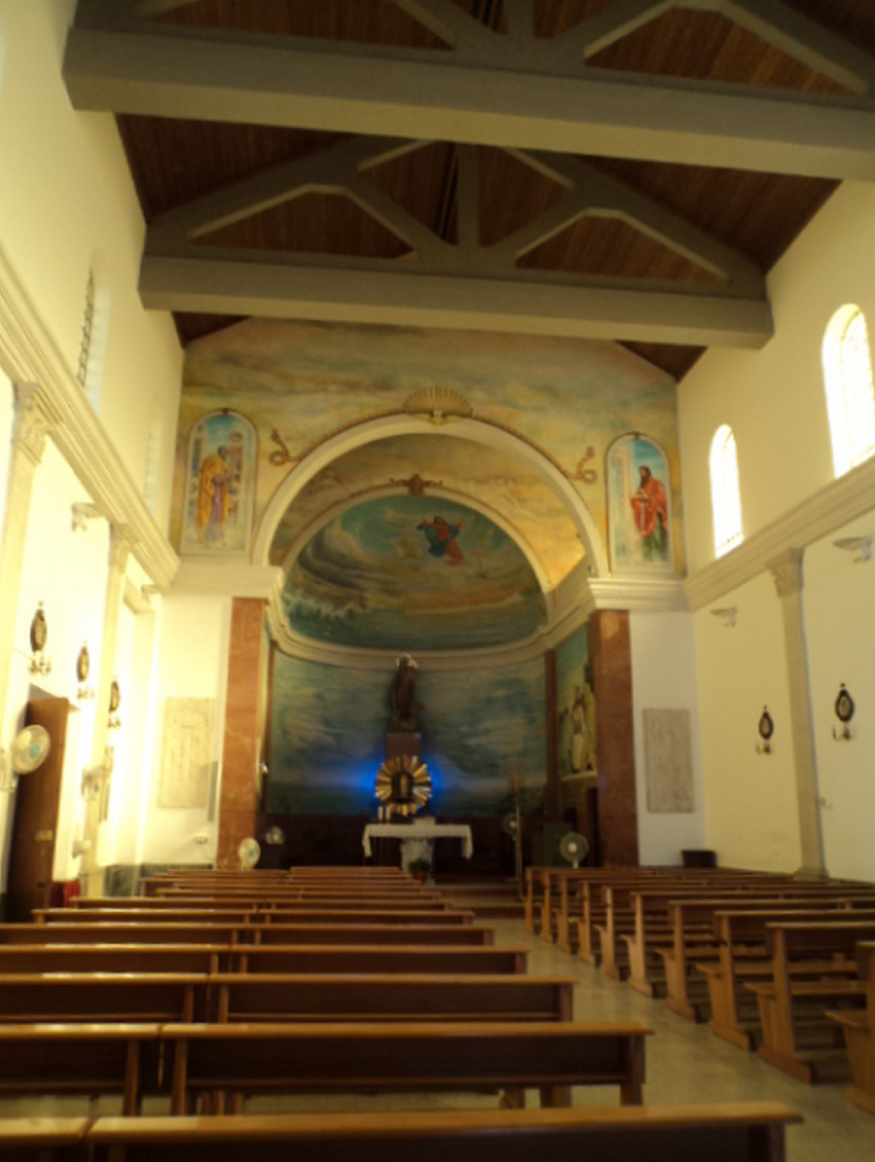 Chiesa di S.Maria di Porto Salvo